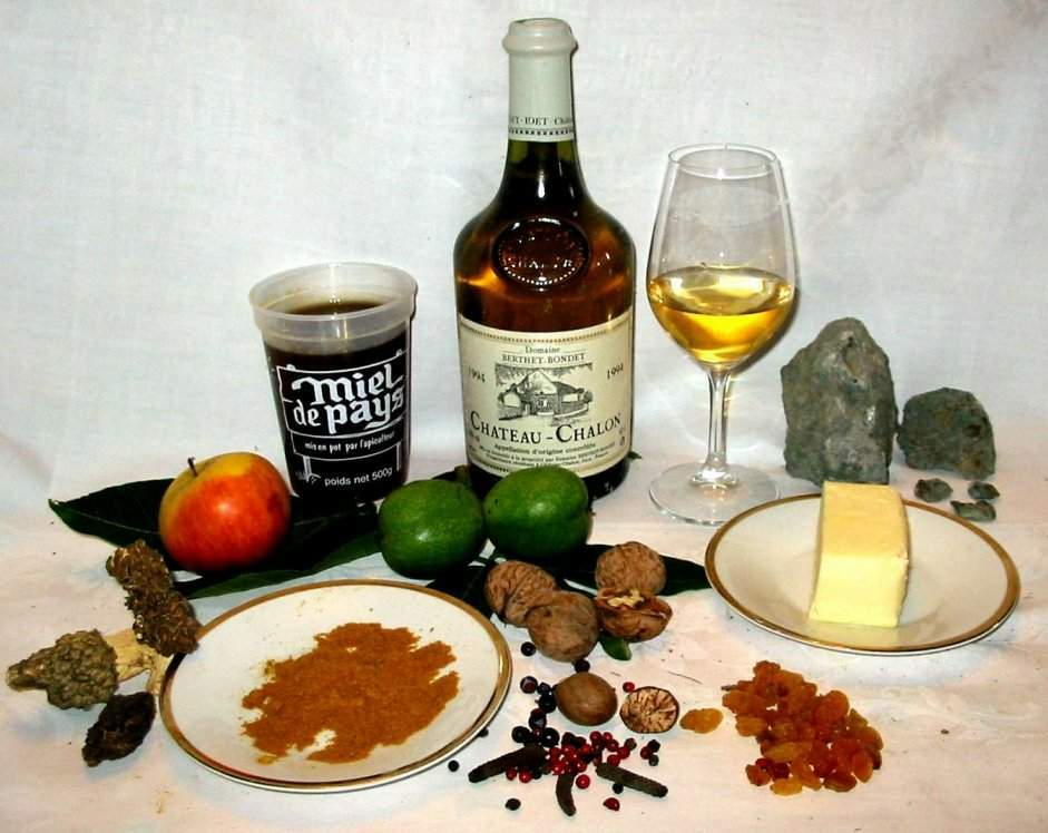 A bottle of Château-Chalon, a vin jaune ("yellow wine") from the Jura wine region in Franche Comté